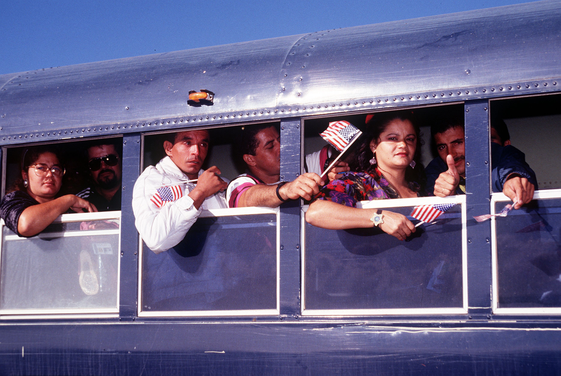 Cuban refugees finally about to fly from Guantanamo to asylum in the USA in September 1996.